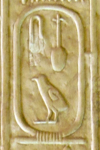 Cartouche 20, Abydos King List. Temple of Seti I, Abydos, Egypt